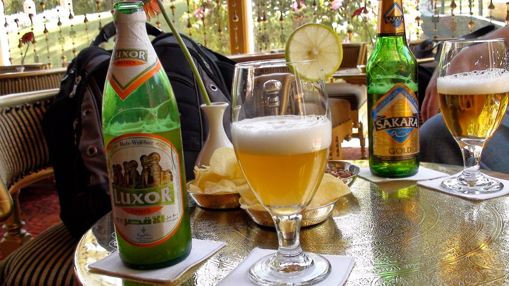 A bottle of Luxor and Sakara Gold in Mena House Hotel, Egypt.